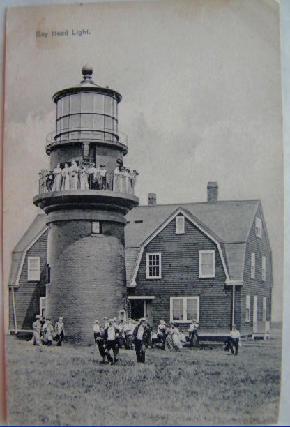 Visiting public enjoying access to the Gay Head Lighthouse and its surrounding grounds in circa 1906. Crosby L. Crocker, who was the Principal Lighthouse Keeper from 1892 to 1920, followed the tradition of all Gay Head Lighthouse keepers by entertaining visitors and always allowing public access. Note: The date of this photo was determined by the discovery of a c1906 post card depicting this exact same photograph.